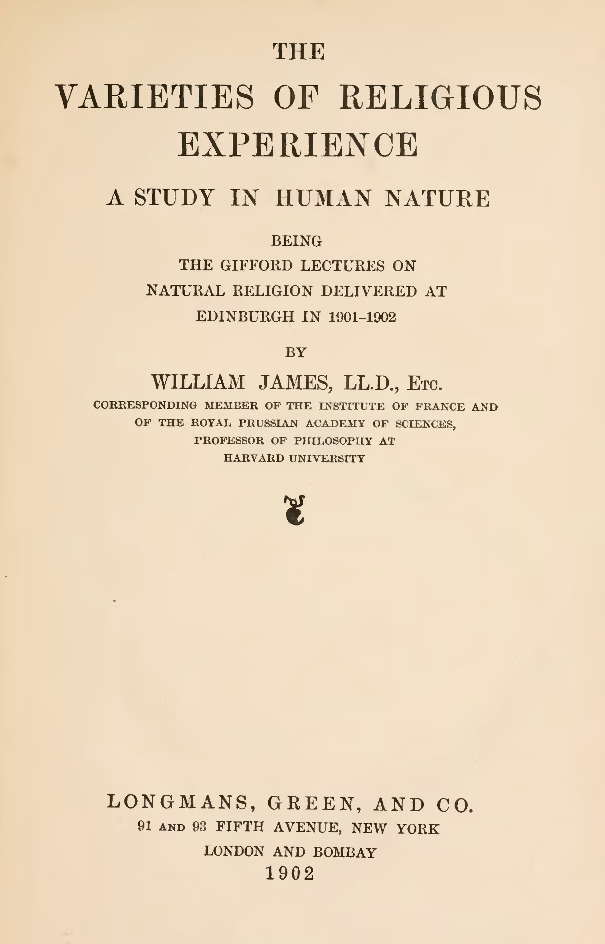 Front cover of the book by William James, The varieties of religious experience, a study in human nature, published in 1902 and in the Public Domain